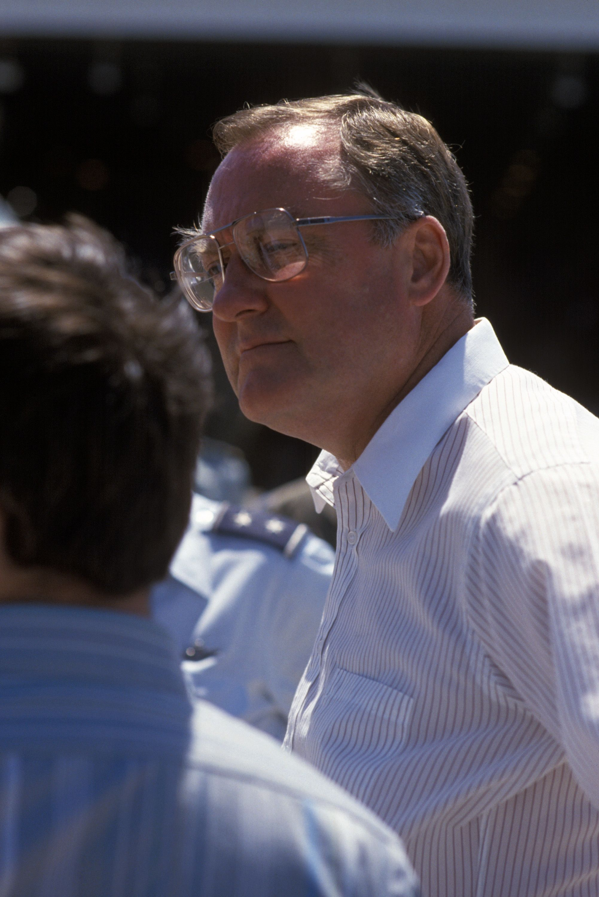 "Illinois Governor James R. Thompson observes as bales of hay are loaded into a C-141B Starlifter aircraft during Operation HAYLIFT. The hay will be airlifted to drought-stricken farmers in South Carolina. Location: SPRINGFIELD, ILLINOIS (IL) UNITED STATES OF AMERICA (USA)"